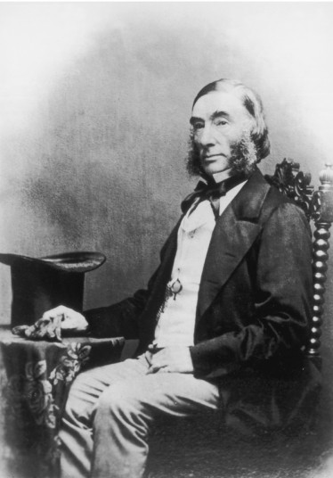 William Cavendish-Scott-Bentinck, the fifth duke of Portland 1800 – 1879